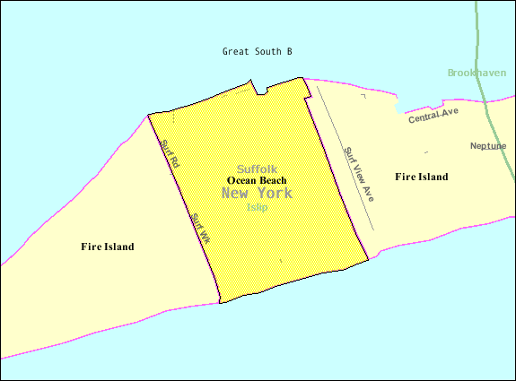 U.S. Census 2000 reference map for Ocean Beach